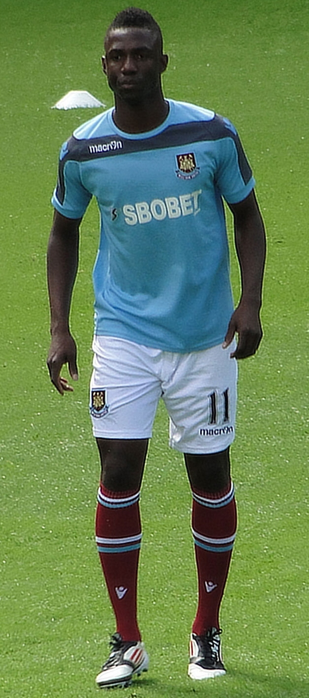 West Ham United player, Modibo Maïga, warming-up before his West Ham debut game on 18 August 2012 against Aston Villa at The Boleyn Ground.